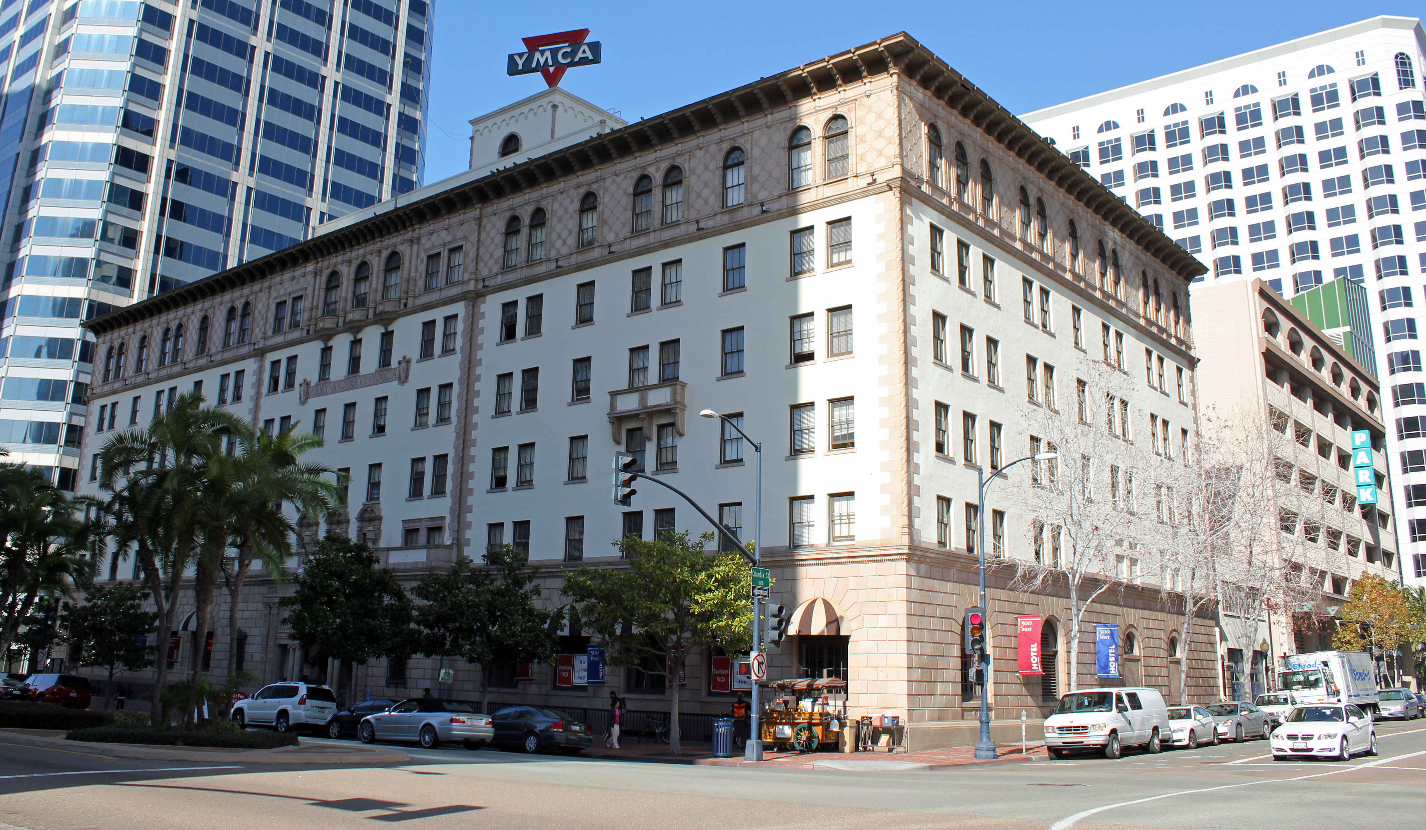 The San Diego Armed Services YMCA building, located at 500 West Broadway in San Diego Califorina. The building is listed on the National Register of Historic Places.